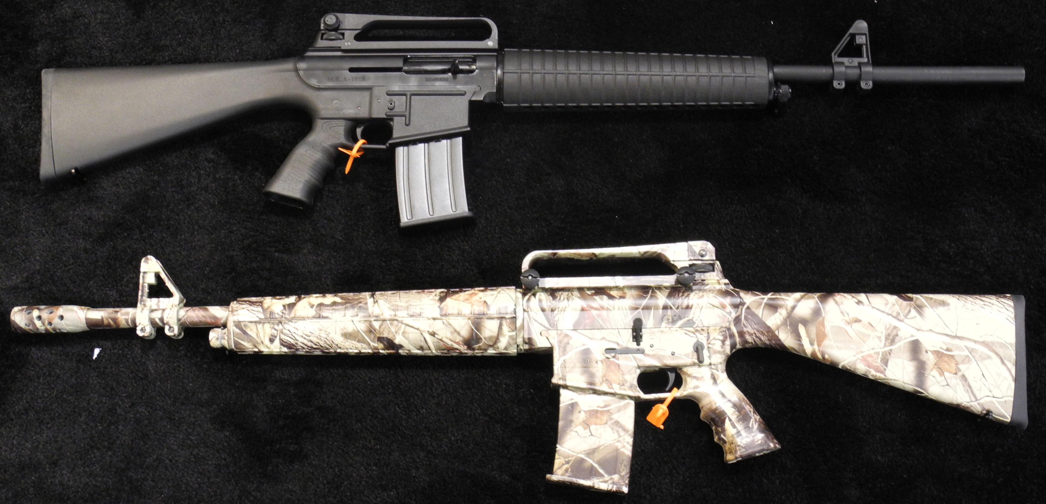 Akdal Arms MKA-1919 semi-automatic shotgun, on stand at the 2011 SHOT Show